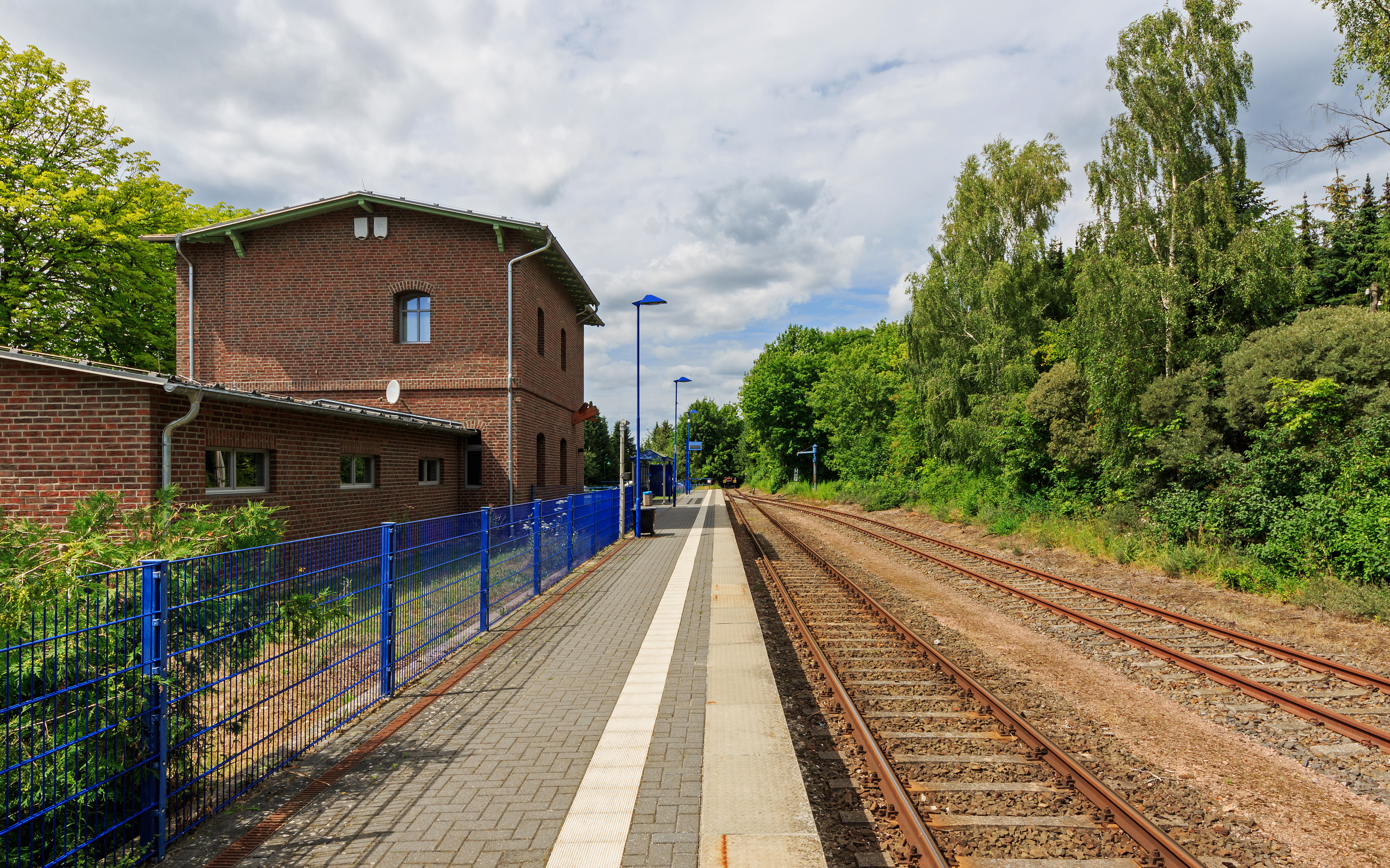 Train station in Groß Schönebeck / Schorfheide, Brandenburg, Germany